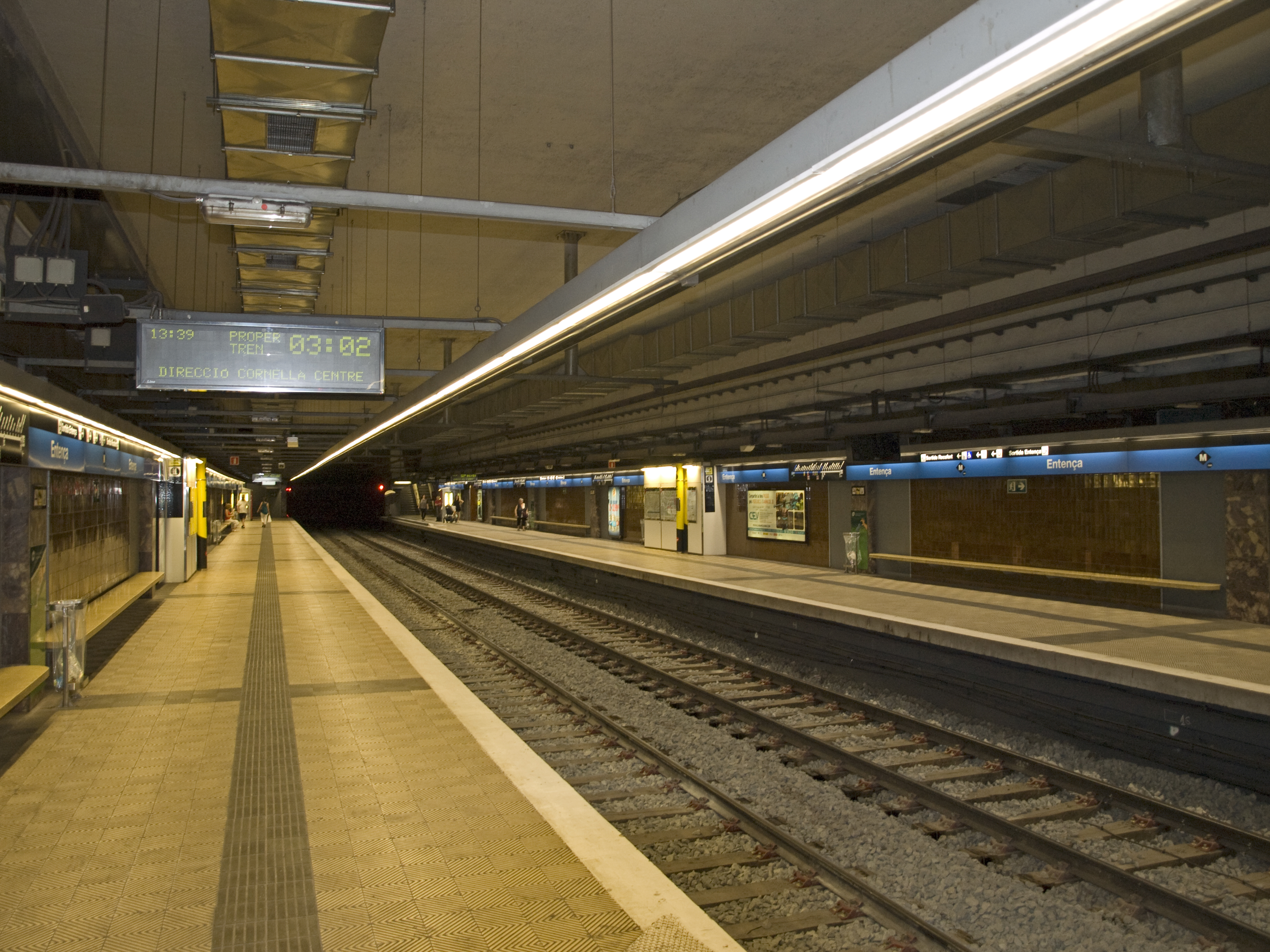 Entença station platforms, line L5, Barcelona Metro. Taken from the westbound platform.